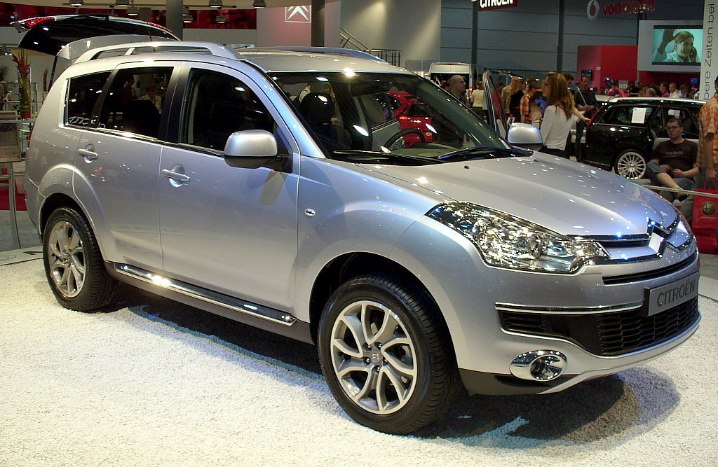 Citroën C-Crosser